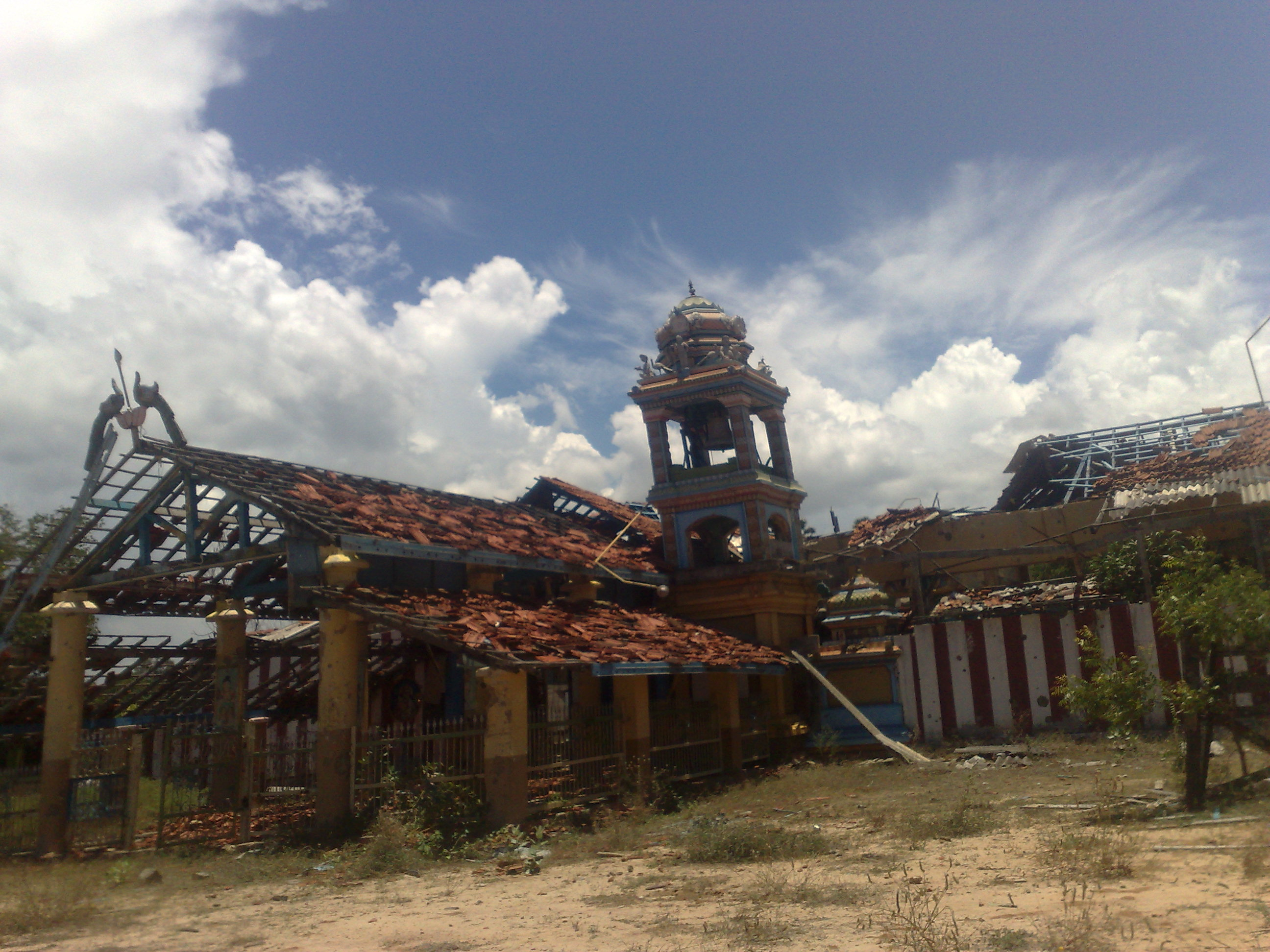 Puthukkudiyiruppu Sri Kandhaswaami temple at 2010 April.